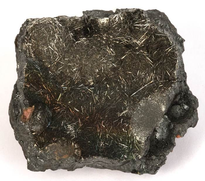 Ramsdellite Locality: Lake Valley District, Sierra County, New Mexico, USA (Locality at ) Size: 4.7 x 4.0 x 2.4 cm. Scintillating, metallic-gray to iridescent brassy and green ramsdellite needles richly line a vug in botryoidal matrix. This showy and excellent specimen is from the Type Locality - the Lake Valley District of New Mexico. Ramsdellite is a rare manganese oxide and this is superb material. Ex. Ed Ruggiero Collection and purchased from Pala Properties in July, 1975.